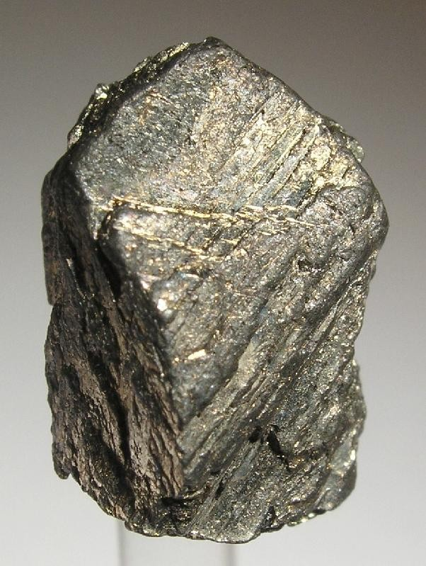 Bismuth Locality: Siglo Veinte Mine (Siglo XX Mine; Llallagua Mine; Catavi), Llallagua, Rafael Bustillo Province, Potosí Department, Bolivia (Locality at ) Very nice single crystal with good brassy-gray color, excellent luster and an attractive stepped habit along the main face. Smal,l but super sharp and unusually 3-dimensional. Better in person. 1.1 x .7 x .6 cm